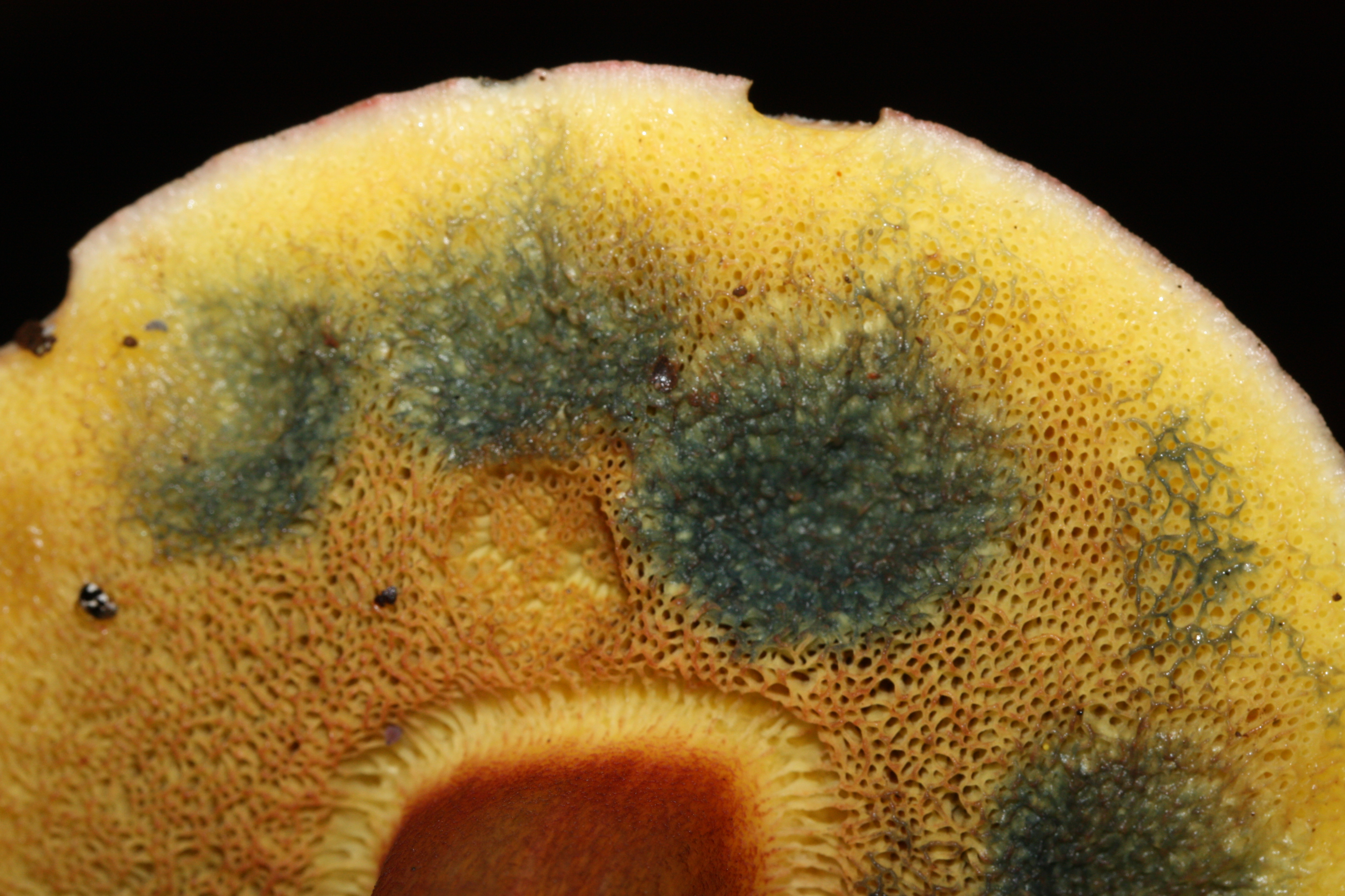 Zeller's Bolete with blue bruises